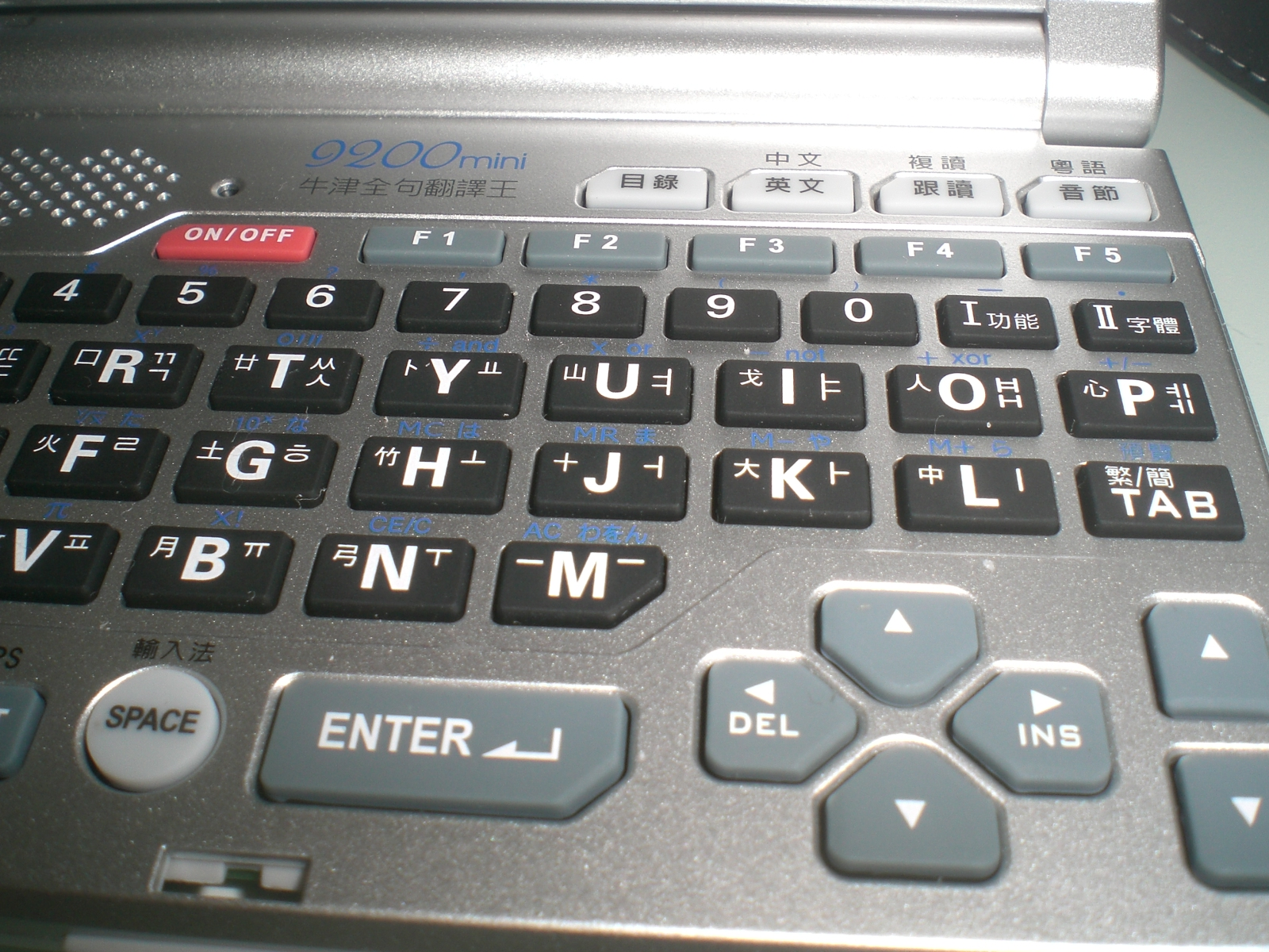 港產好易通電子詞典